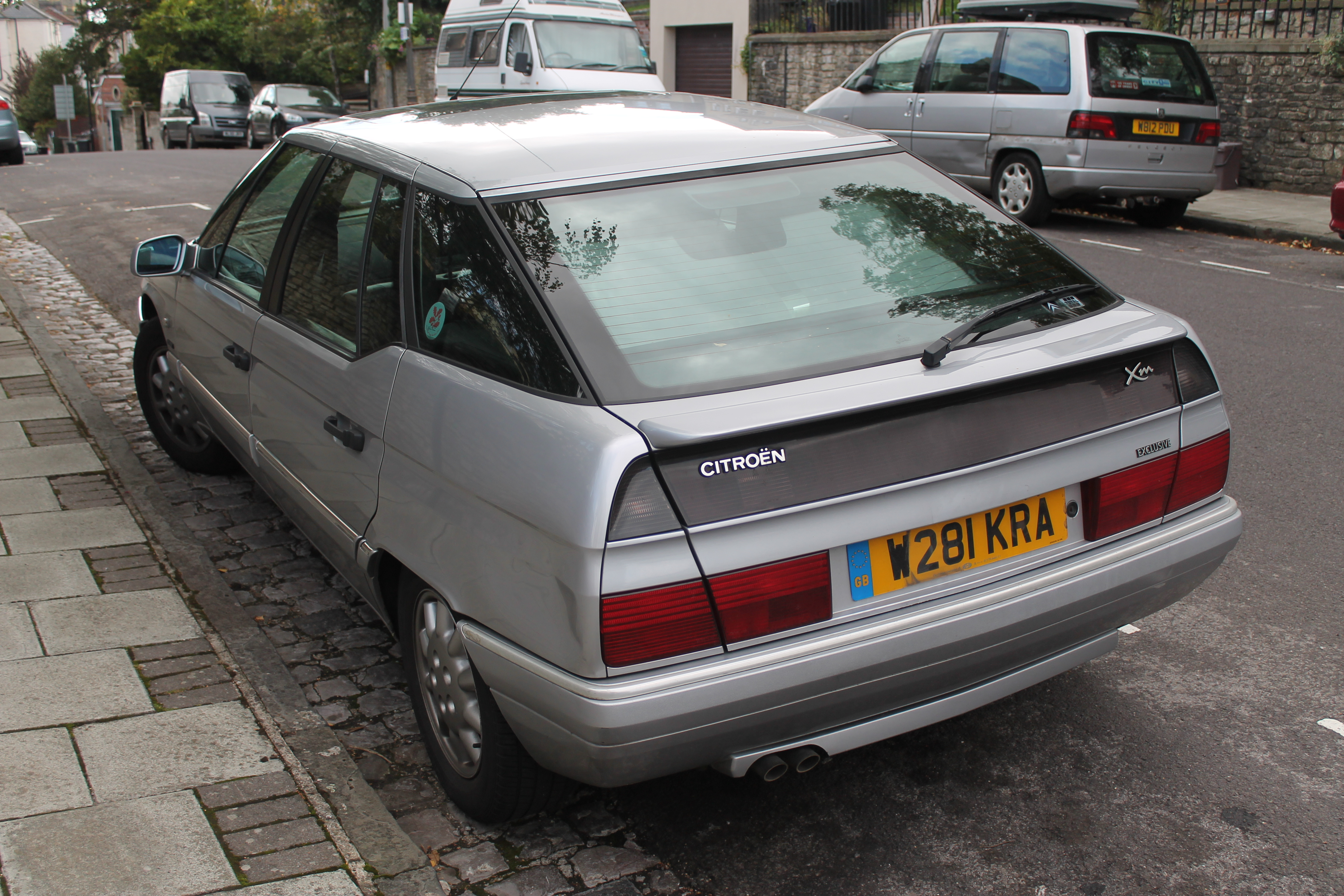 Never very popular at all, these big executive Citroen XMs. This is one of the last, first registered in June 2000, the last year of production. This has a pretty hefty 3 litre V6 engine. For such a new car, it's a surprise there's only 45 left registered on the roads in 2013. I like the rear light configuration- very unique.